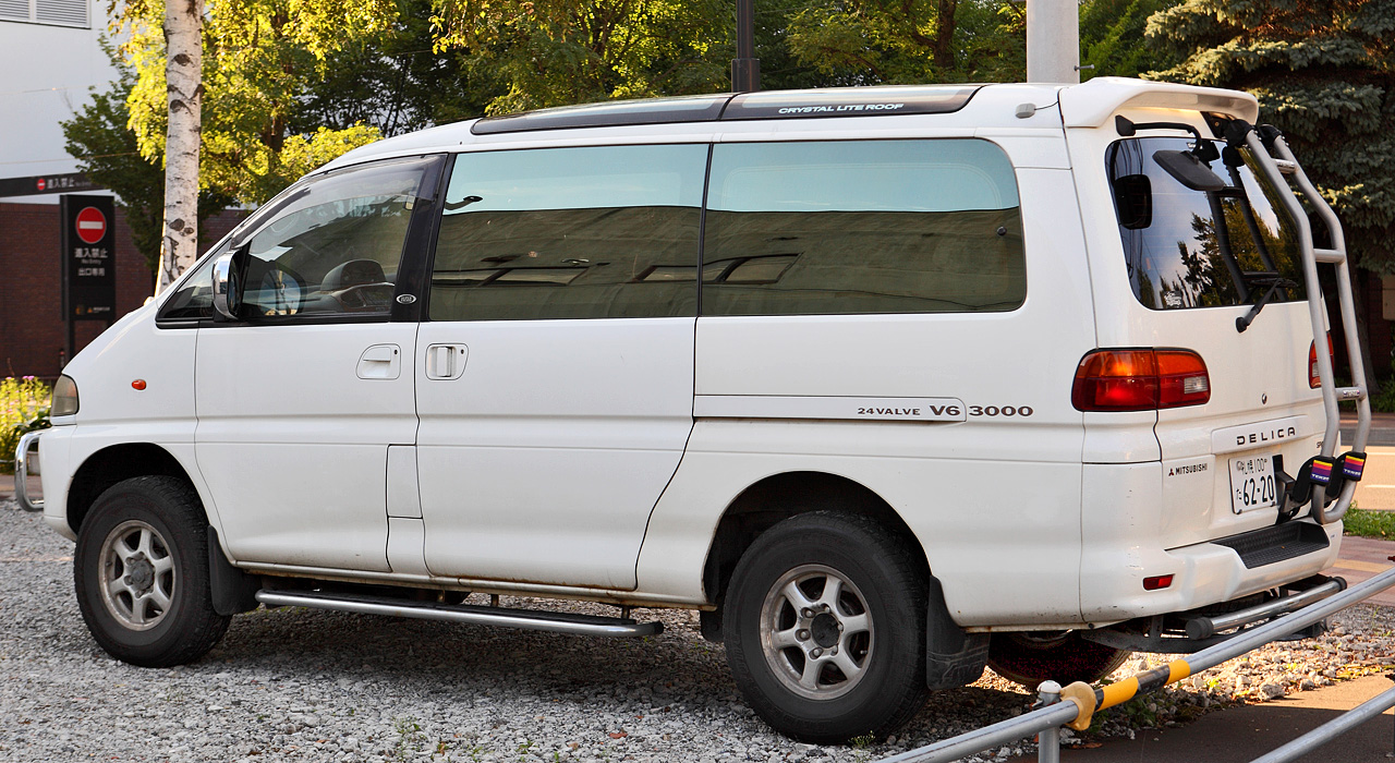 Mitsubishi Delica Space Gear 3.0 Long Super Exceed Cryistal Light Roof